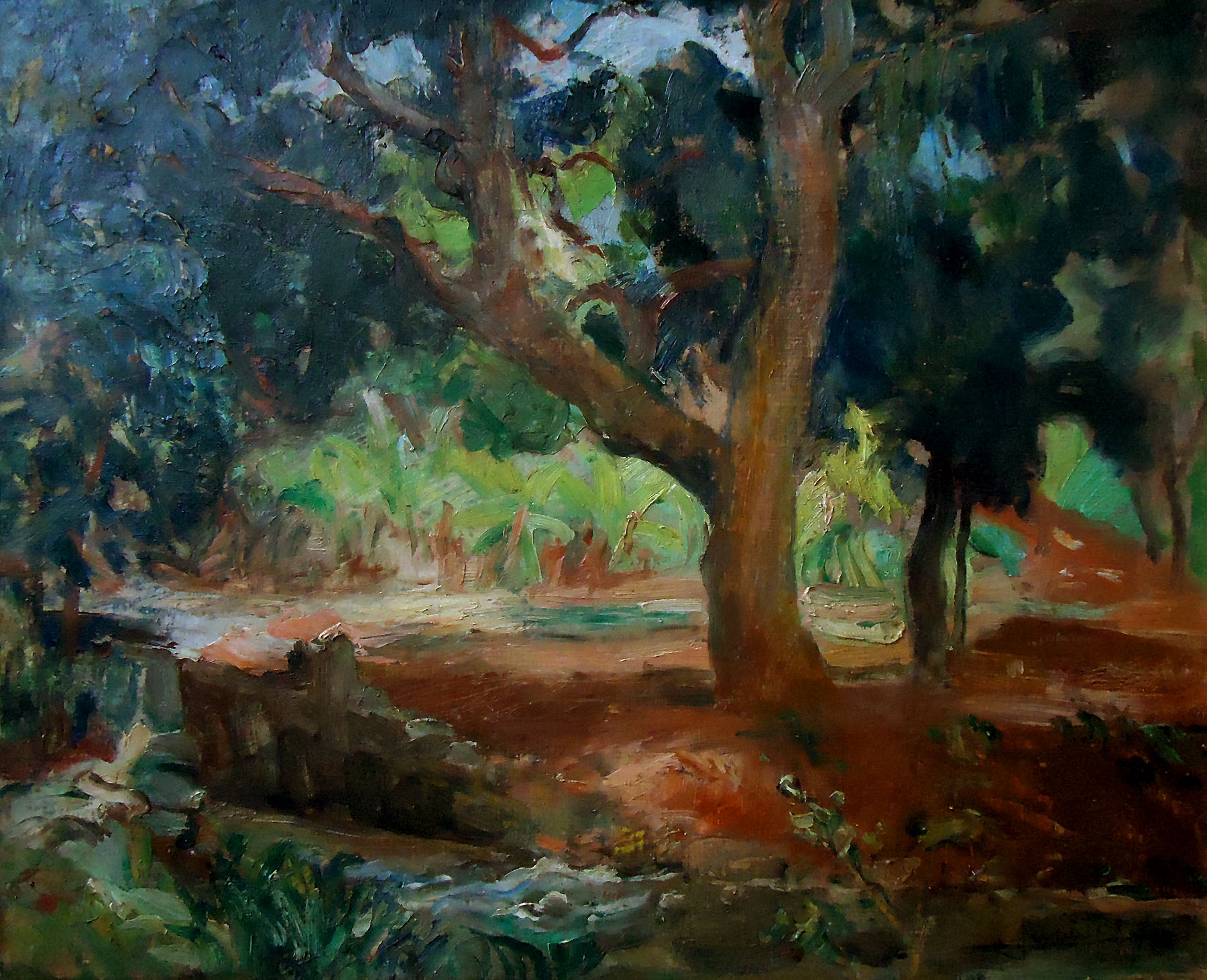 Lucílio de Albuquerque (1877-1939), Landscape with trees and water fountain, oil on canvas, not dated. [Paisagem com fonte de água, óleo sobre tela, sem data, 28,5 x 35,4 cm]. Private Collection. Photo Gedley Belchior Braga